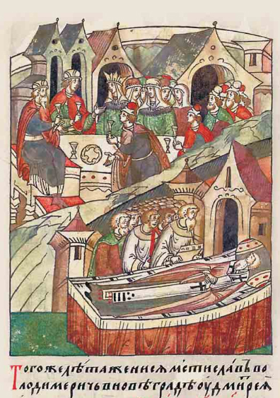 Wedding of Mstislav I of Kiev and Liubava Dmitrievna; Death of a bishop